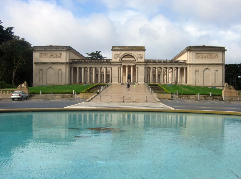 Description : Palace of the Legion of Honor, San Francisco, USA Author : own work, Urban ; I took this picture on april 2006.